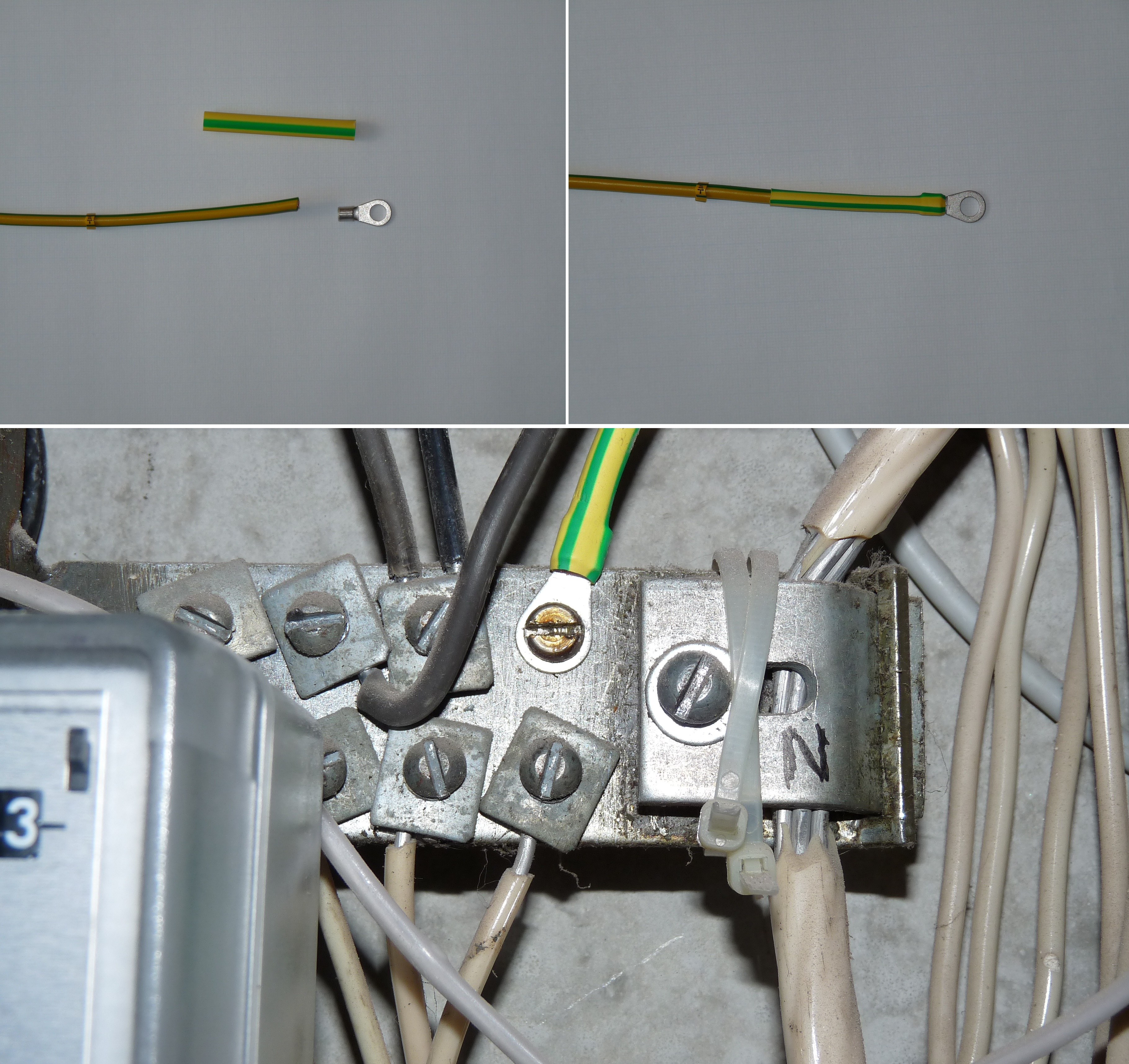 Correct neutralling (TN-C) in old apartment building. NB! Using neutral wire as the ground wire is strictly forbidden in new installations!!!